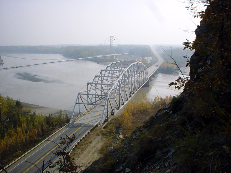 Smoke from forest fires obscures the Alaska oil pipeline at Big Delta, north of Delta Junction on the Richardson Highway